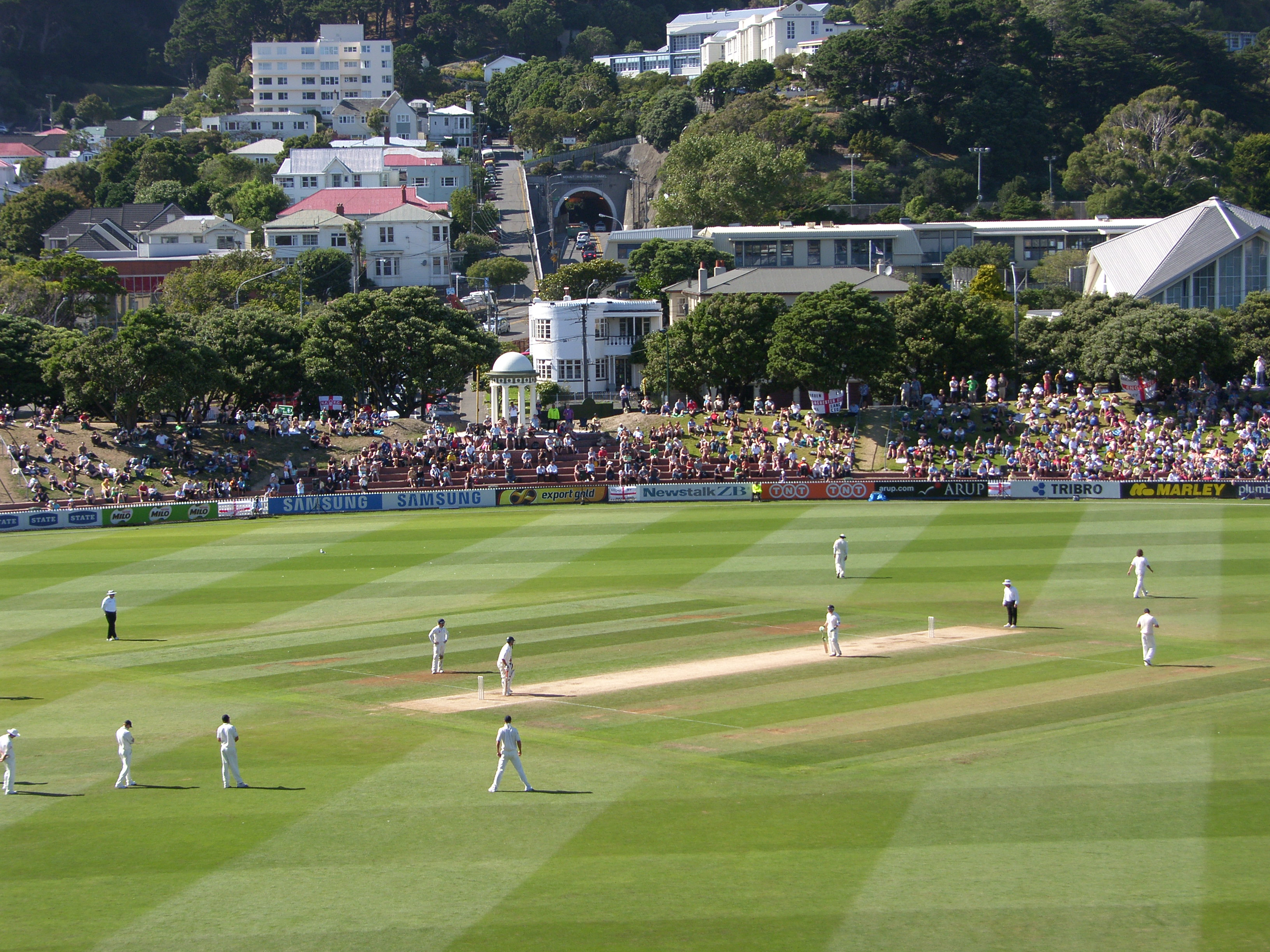 New Zealand v England Test match in progress at the Basin Reserve 2008